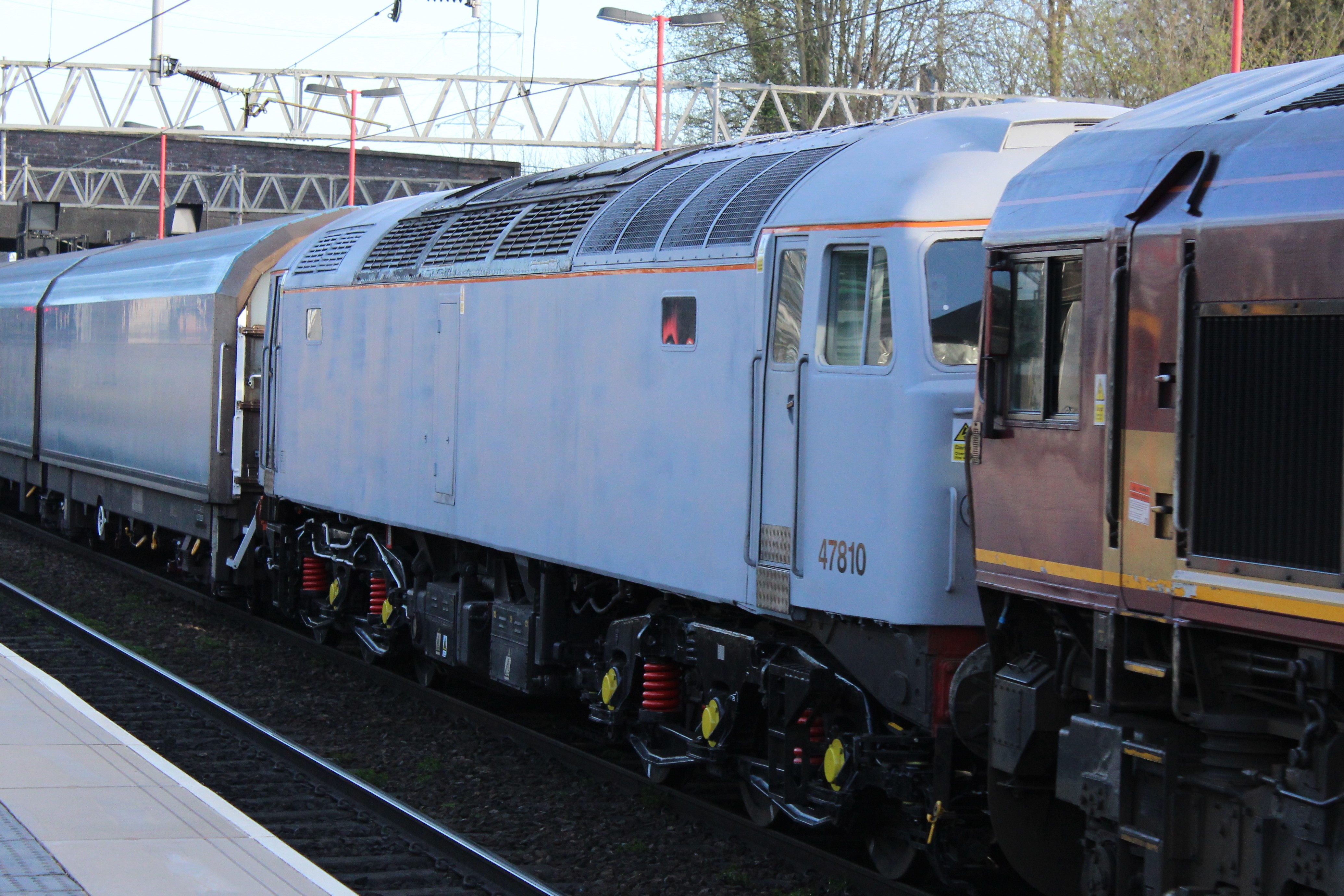 47810 being dragged in undercoat livery